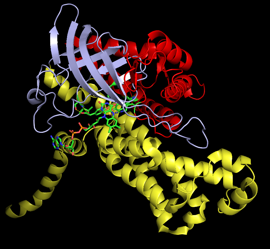 PyMol-generated cartoon of a Thermus thermophilus hpaB monomer complexed to FAD and 4-hydroxyphenylacetate. Generated using RCSB structure 2YYJ. Color-coding distinguishes three domains identified by the crystallographers who generated this structure.